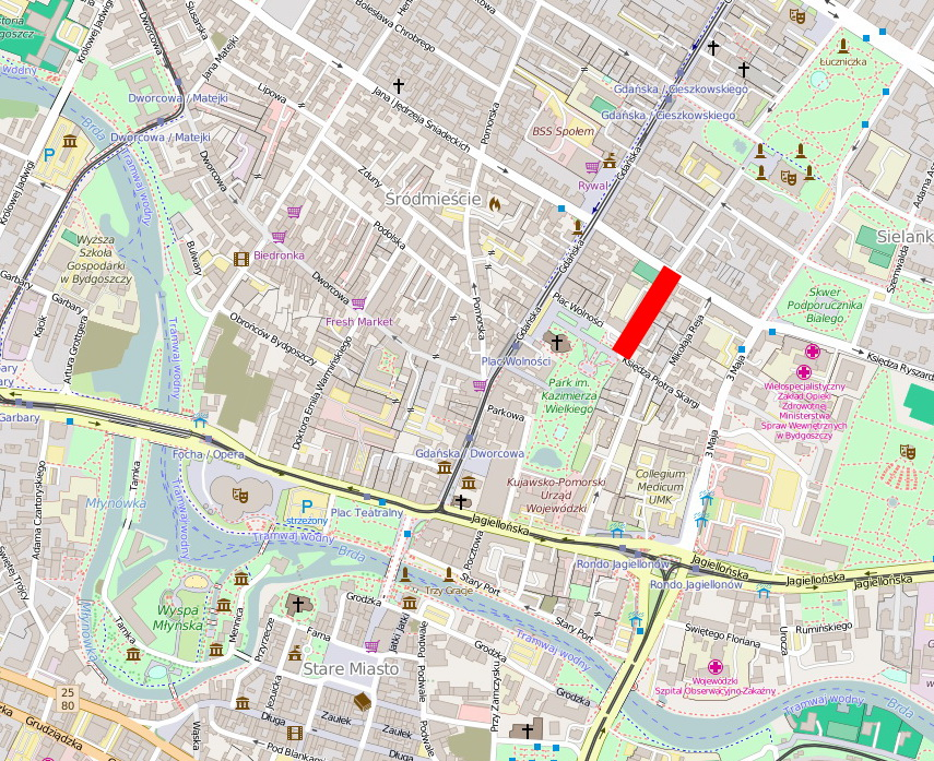 Location map